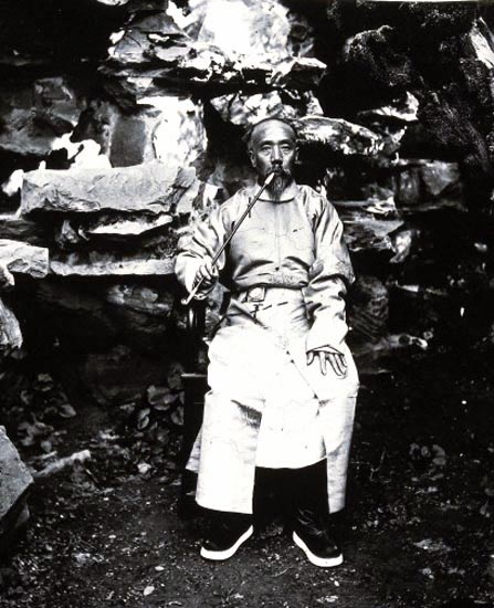 Shen Guifen